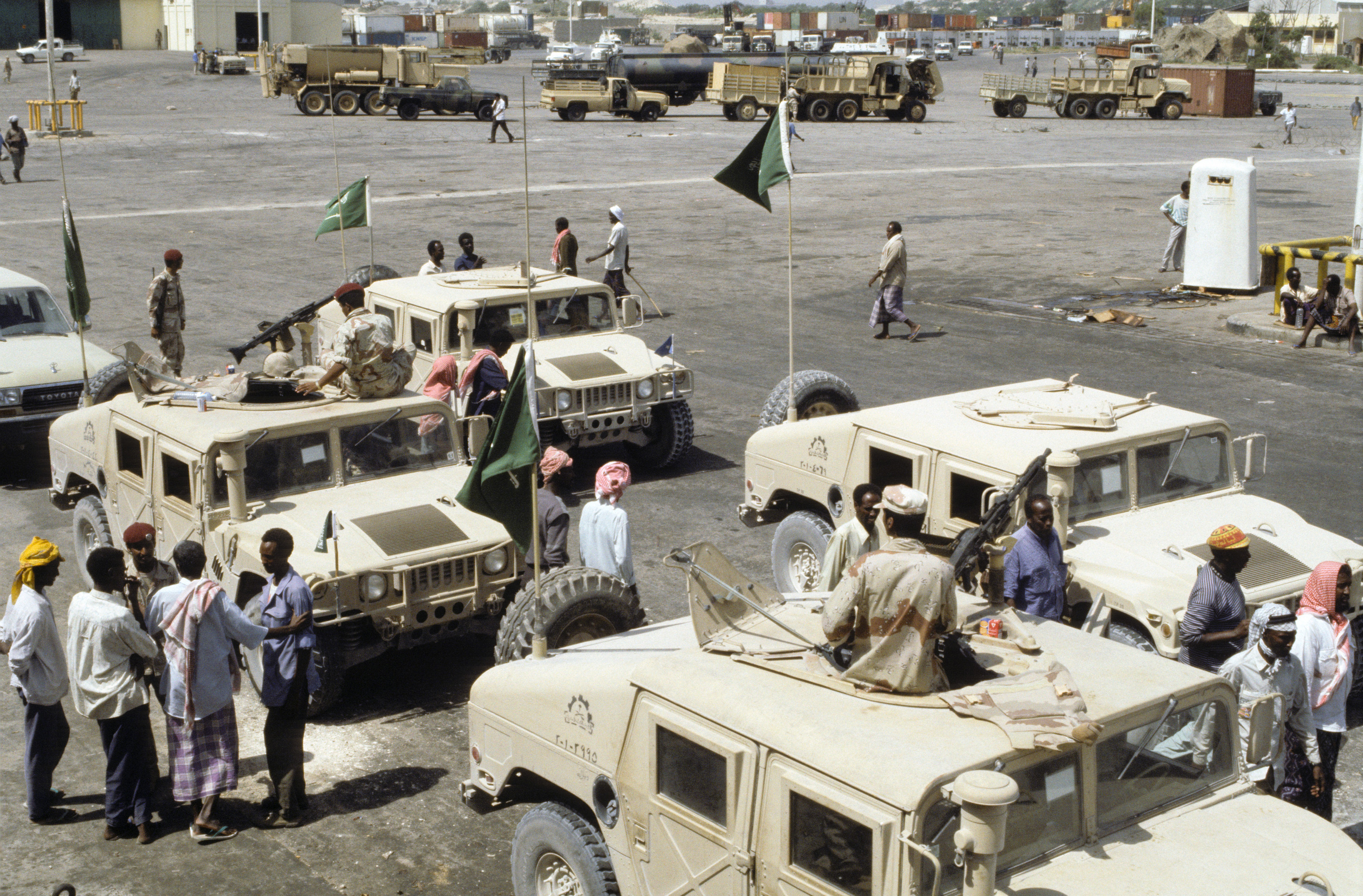 Saudi Arabian High-Mobility Multipurpose Wheeled Vehicles (HMMWV) wait for food stores to be off-loaded at the Mogadishu seaport. The food will be provided to the Somali people. VIRIN: DA-ST-96-01236